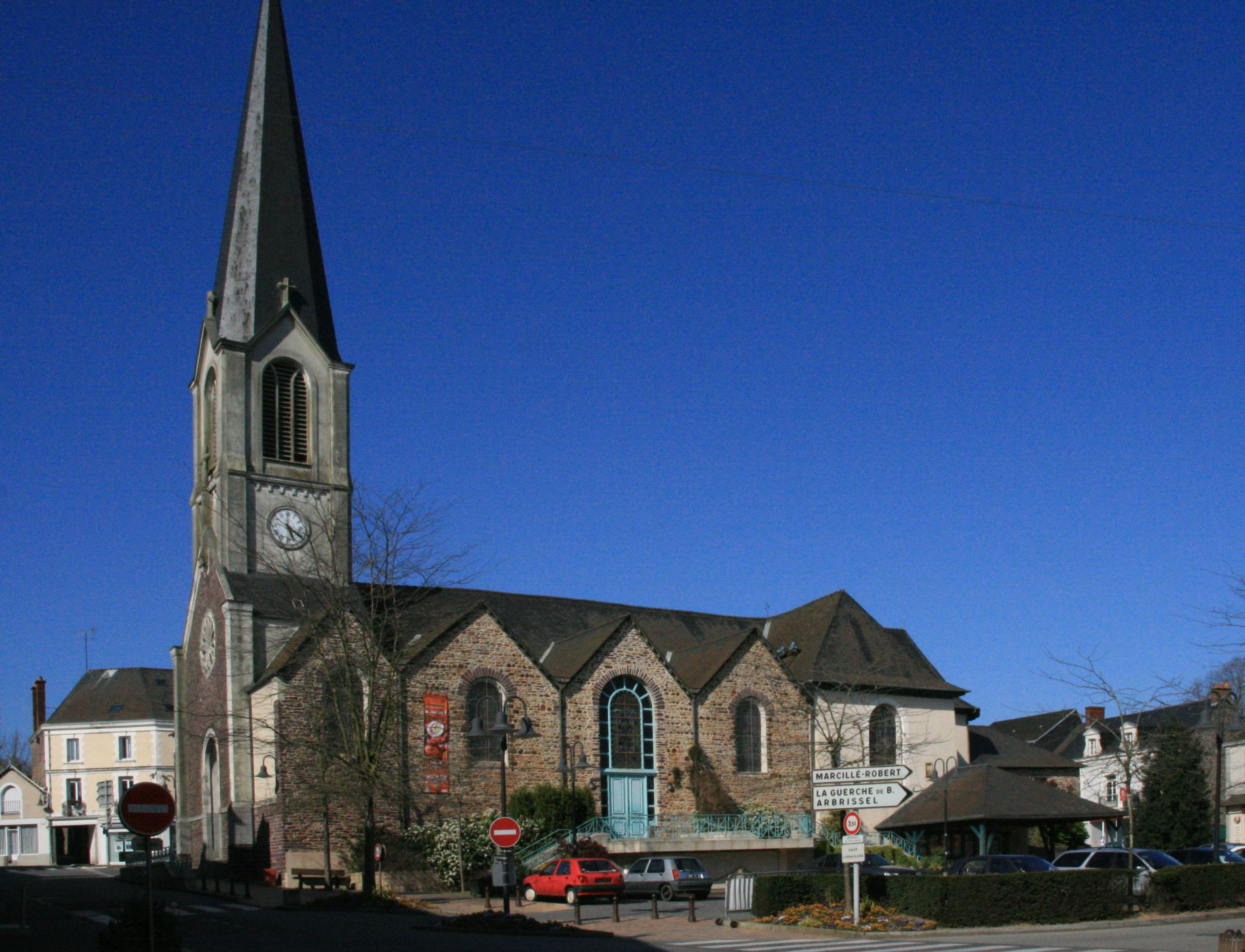 Town square and church Saint Peter , village of Retiers, department of Ille-et-Vilaine, Brittany, France. Church rebuilt at 17th century.